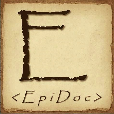 This is the logo of EpiDoc.